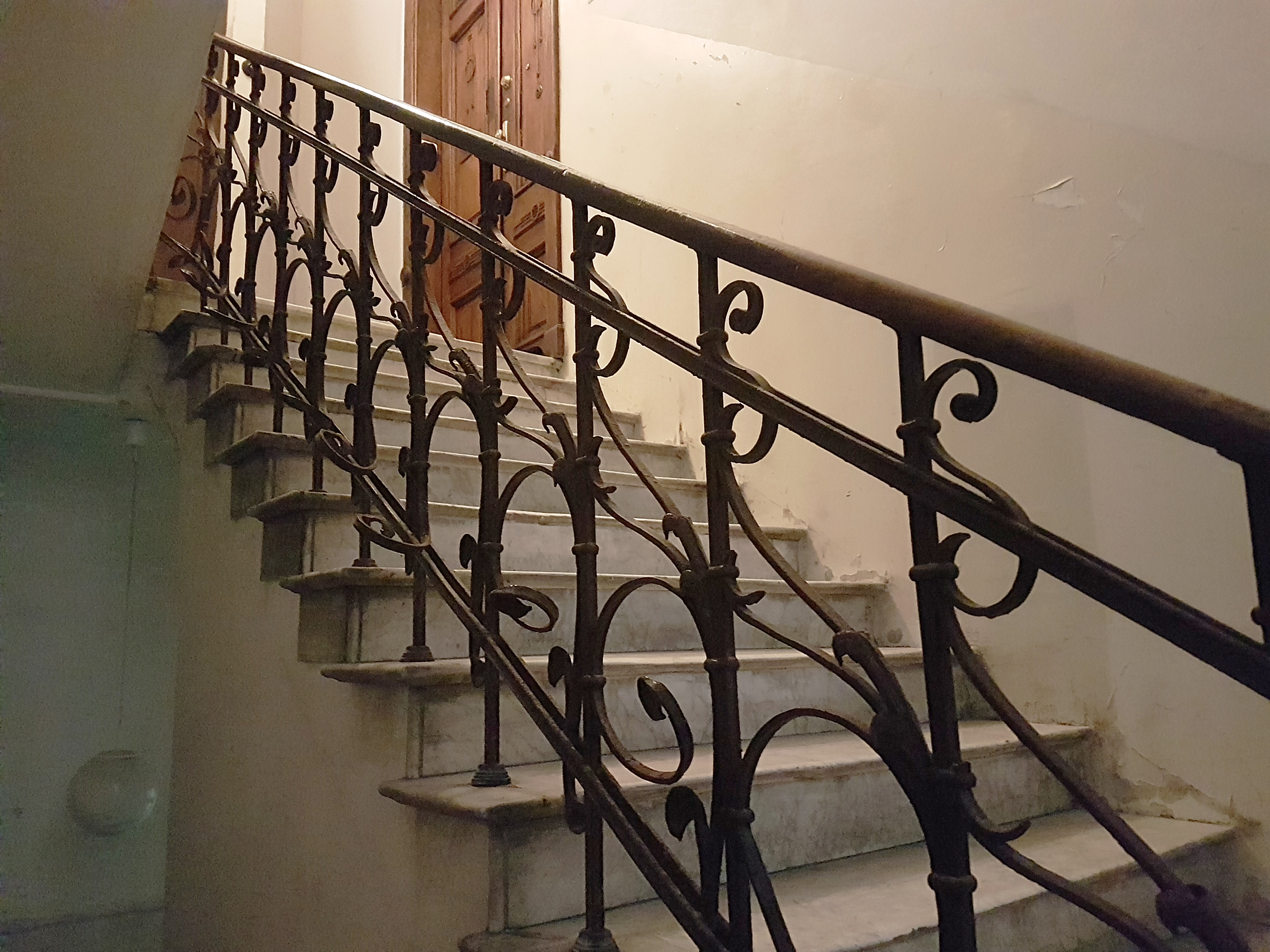 Marszałkowska 4 - balustrada w klatce schodowej